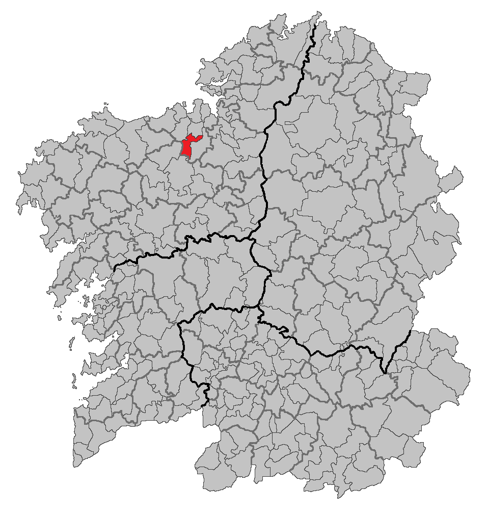 Location map of Carral, A Coruña, Galicia